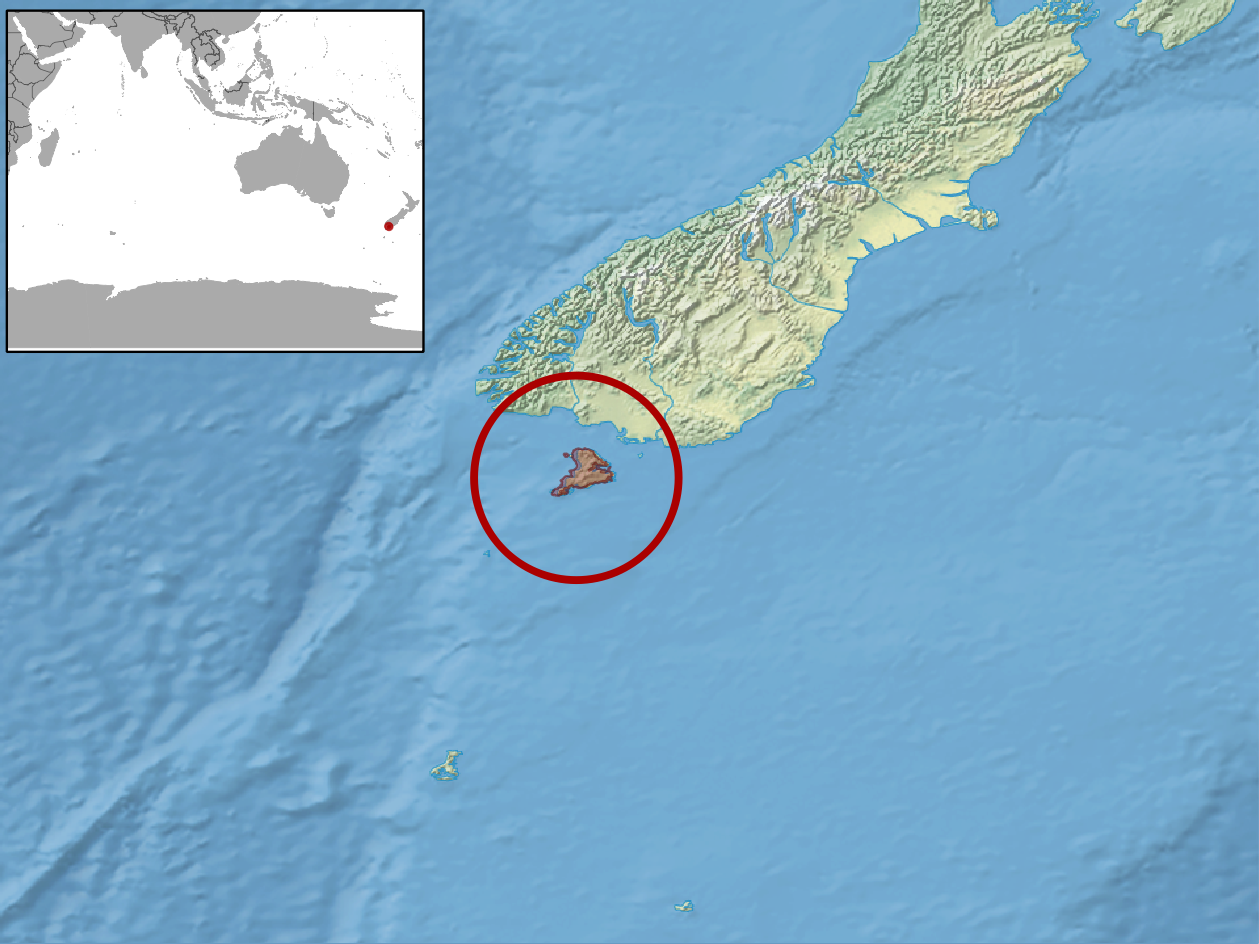 geographic distribution of Oligosoma notosaurus